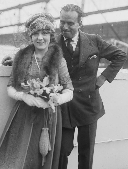 American actors Douglas Fairbanks (1883-1939) and Mary Pickford (1892-1979)